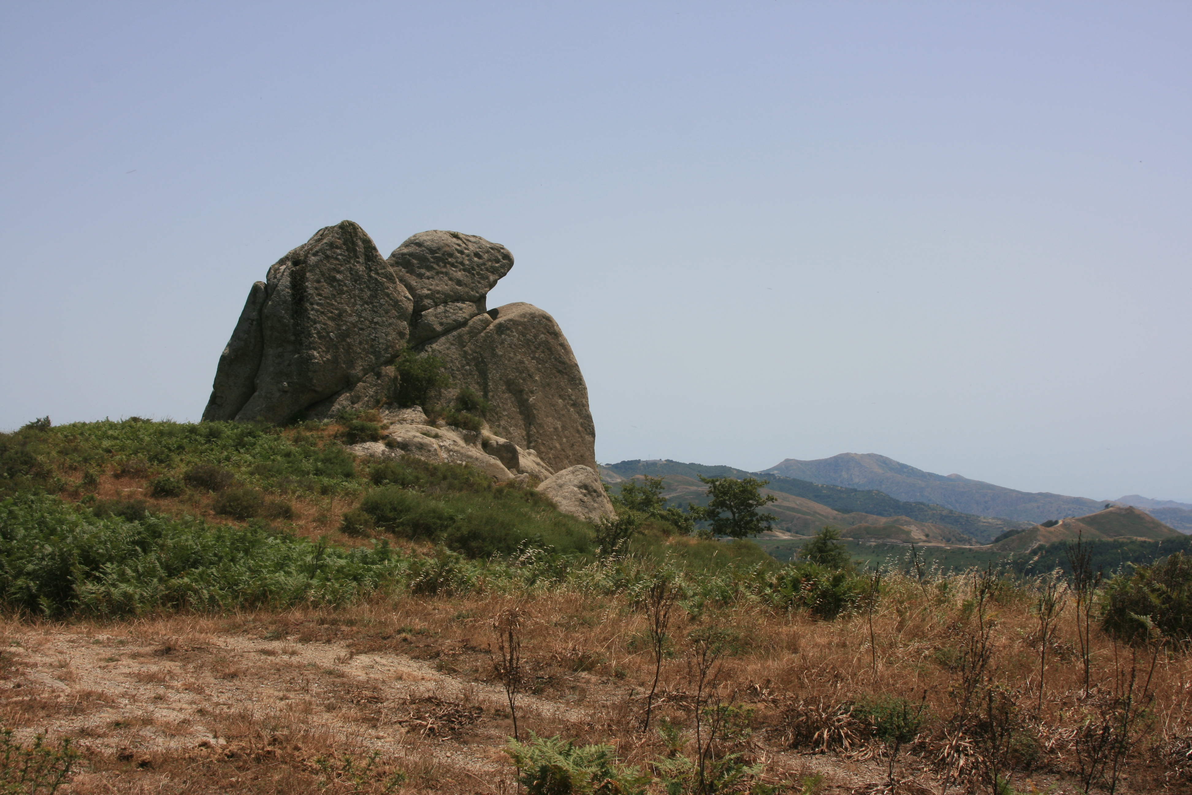 These are not megaliths but natural rock formations.